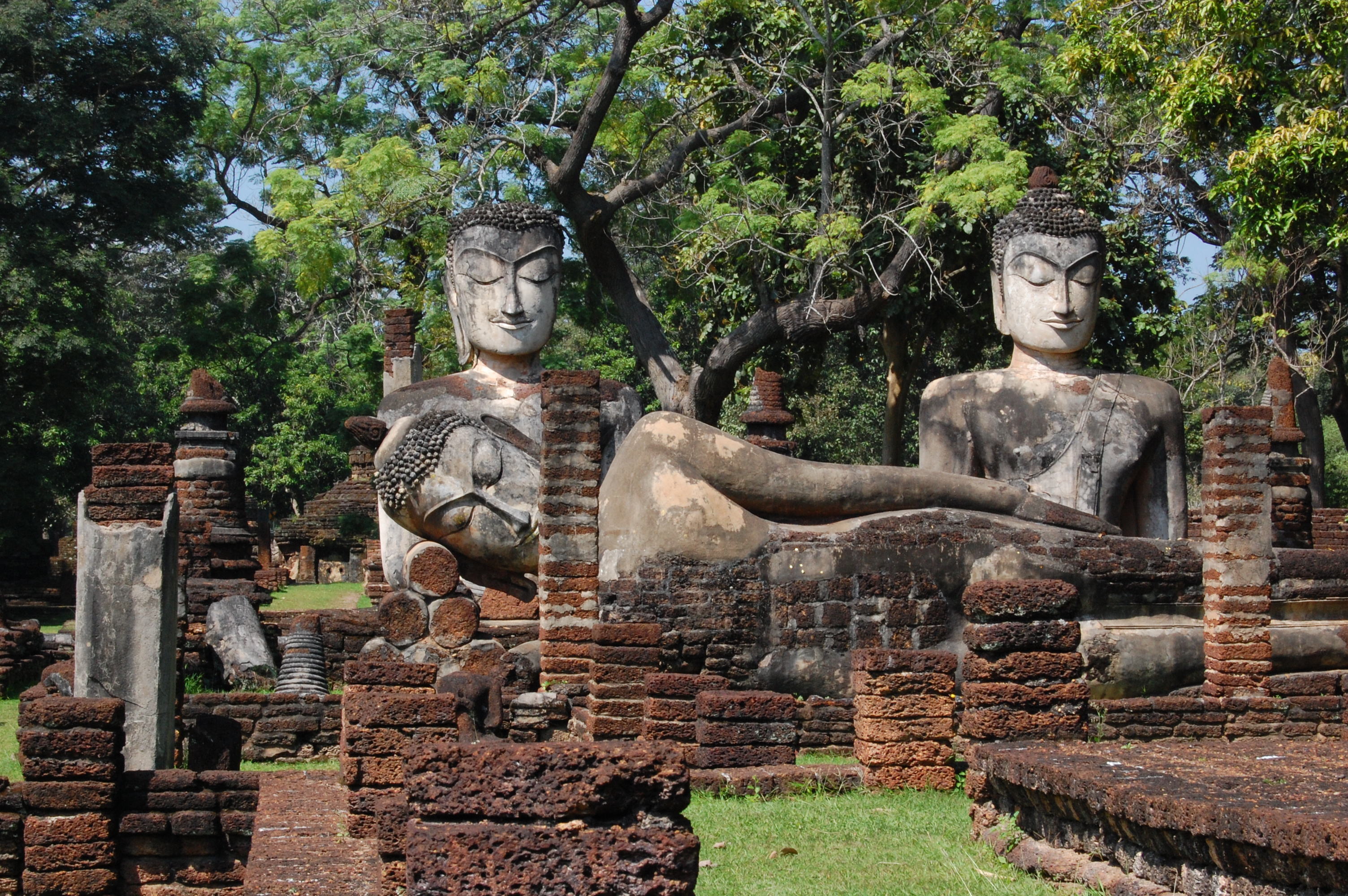 Kamphaeng Phet historical park